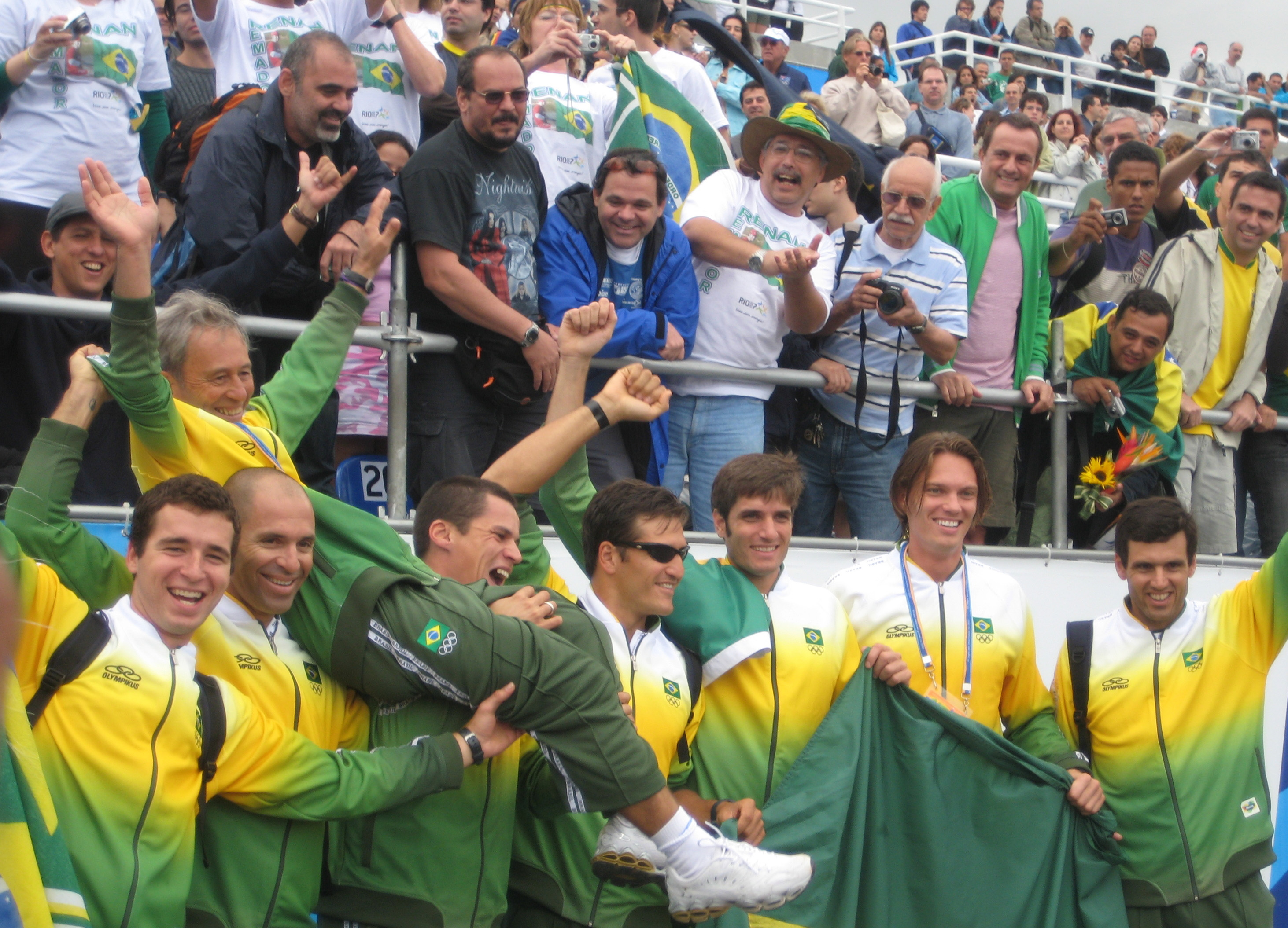 Brazilian men's eights team, silver medalist - Rio 2007